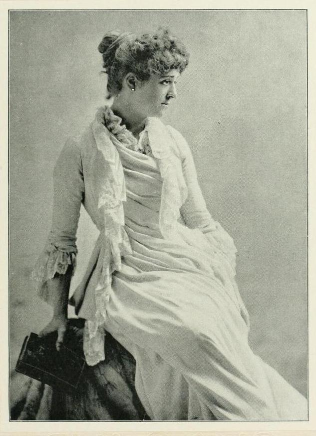 Photo of Actress Marie Burroughs in the role of Gladys in The Rajah, appears in The Marie Burroughs Art Portfolio of Stage Celebrities (A.N. Marquis & Company, 1894)